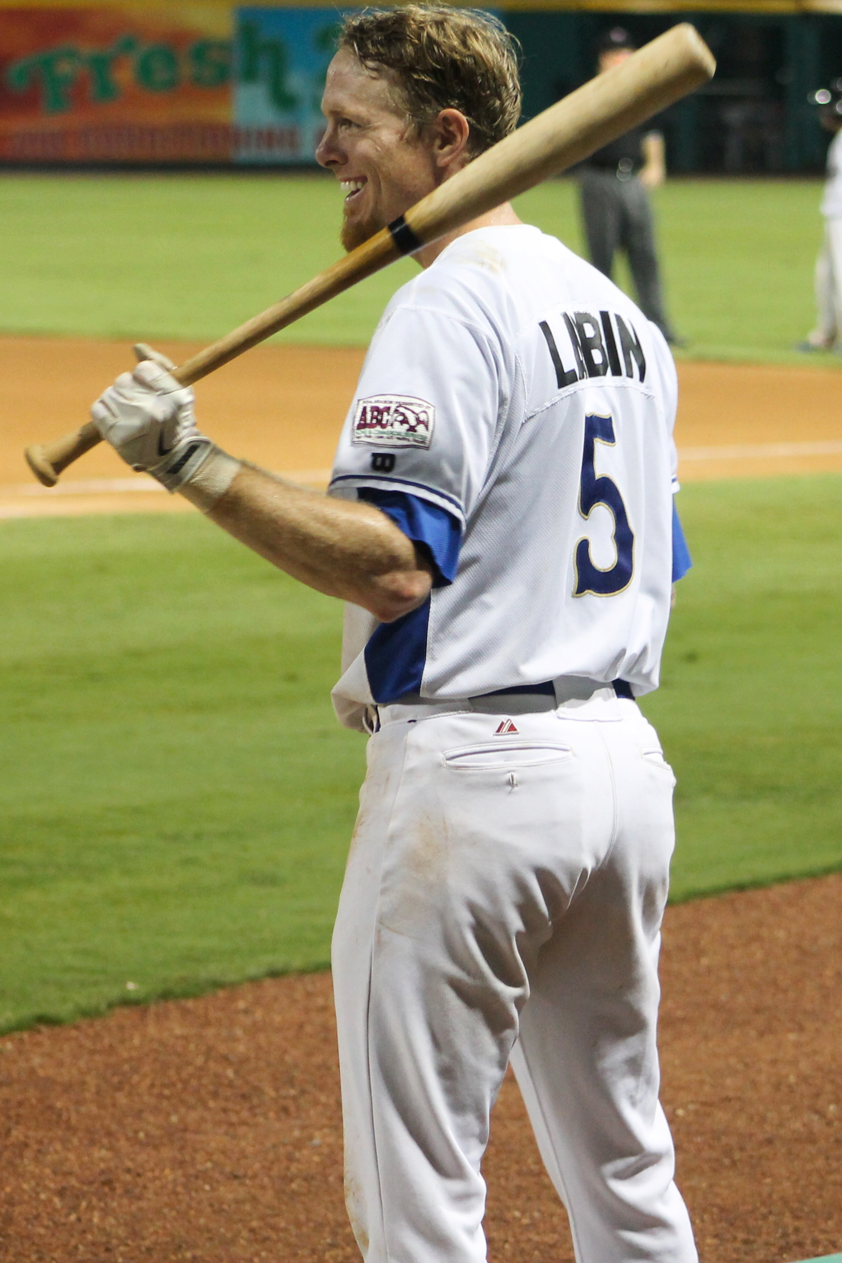 Professional baseball player Chase Lambin during a game with the Sugar Land Skeeters in July 2014.